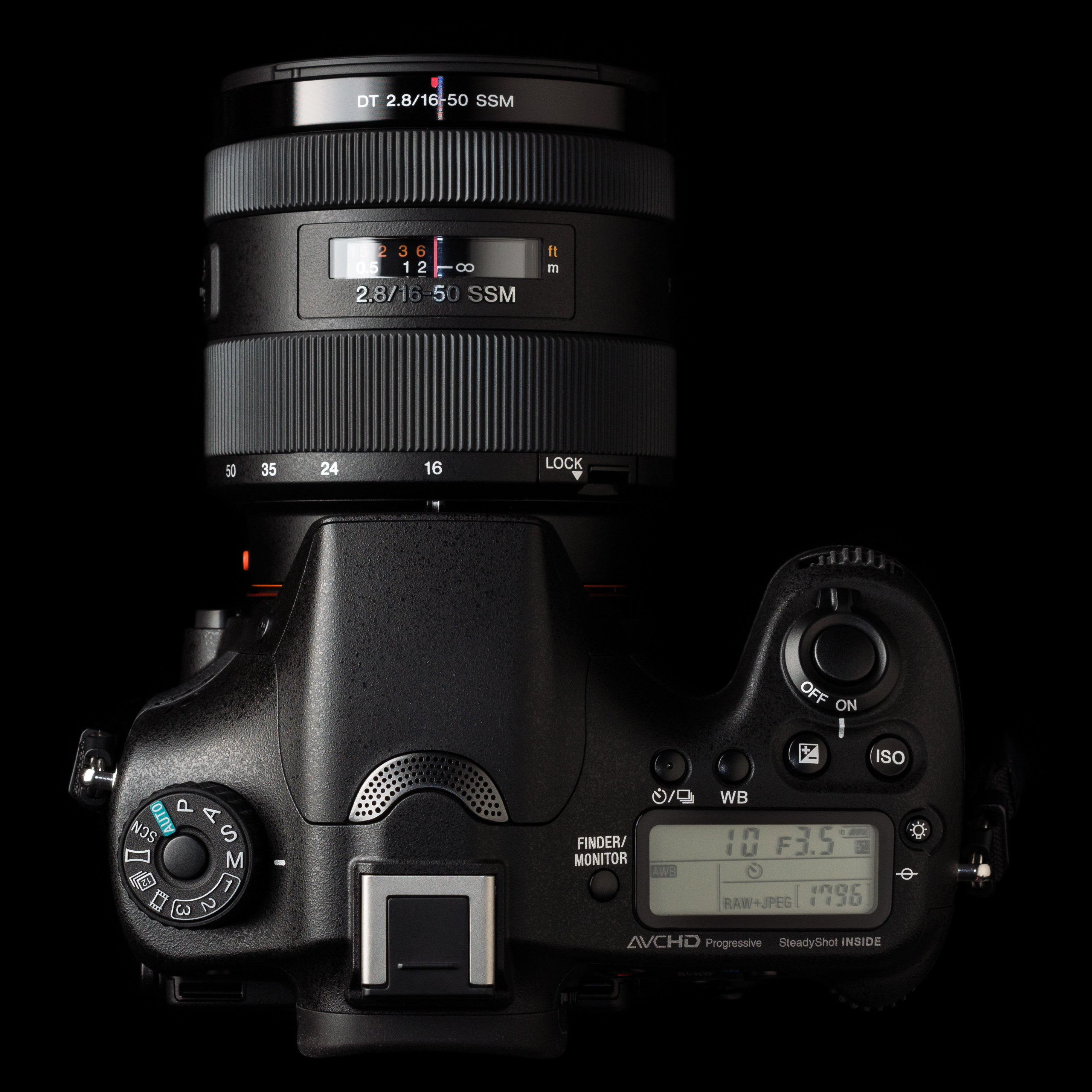 Sony α 77 II A-mount camera with Sony DT 16-50mm F2.8 SSM kit lens - top side. Photographer's notes: This image was taken with a Sony α33 camera. It was lit by a Sony HVL-F42AM wireless flash (modified by a softbox) positioned to the left of the subject, and a white reflector to the right.